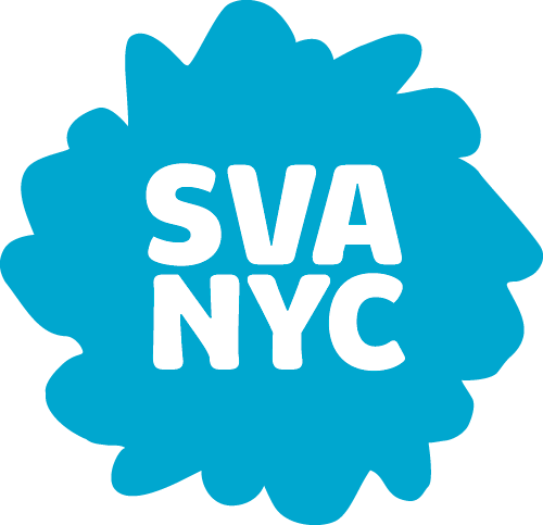 Official School of Visual Arts logo